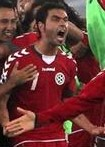 Israfeel Kohistani rejoicing after reaching the final of the 2011 SAFF championship